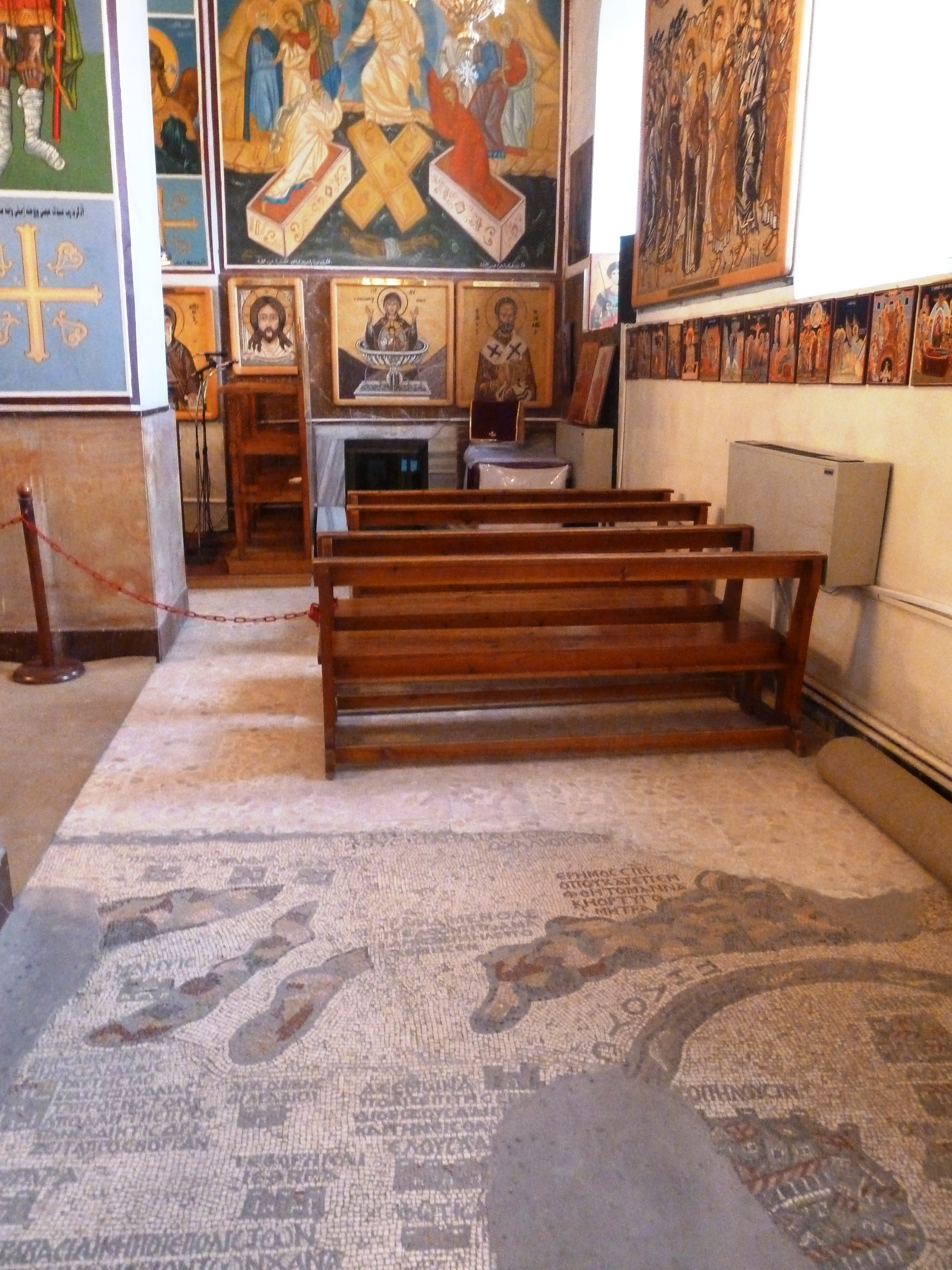 Byzantine floor mosaic map at St. George Church, Madaba, Jordan